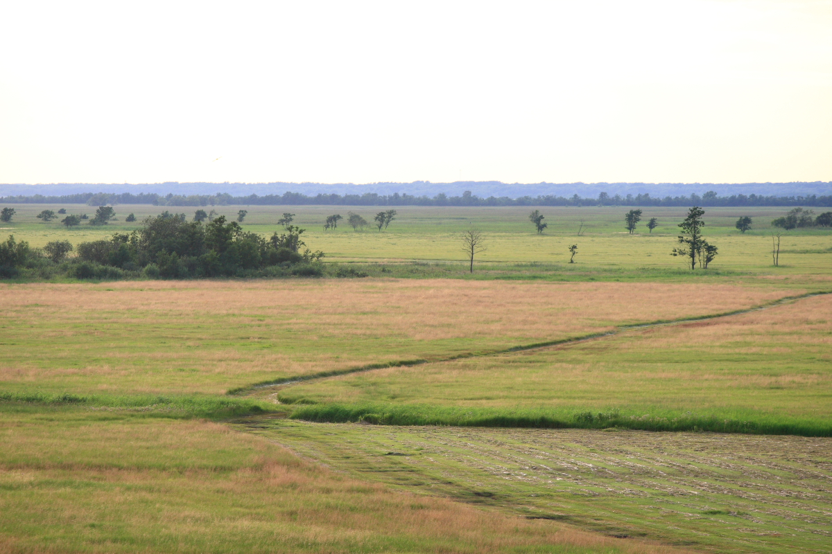 Kasari, Matsalu National Park, Lääne County, Estonia